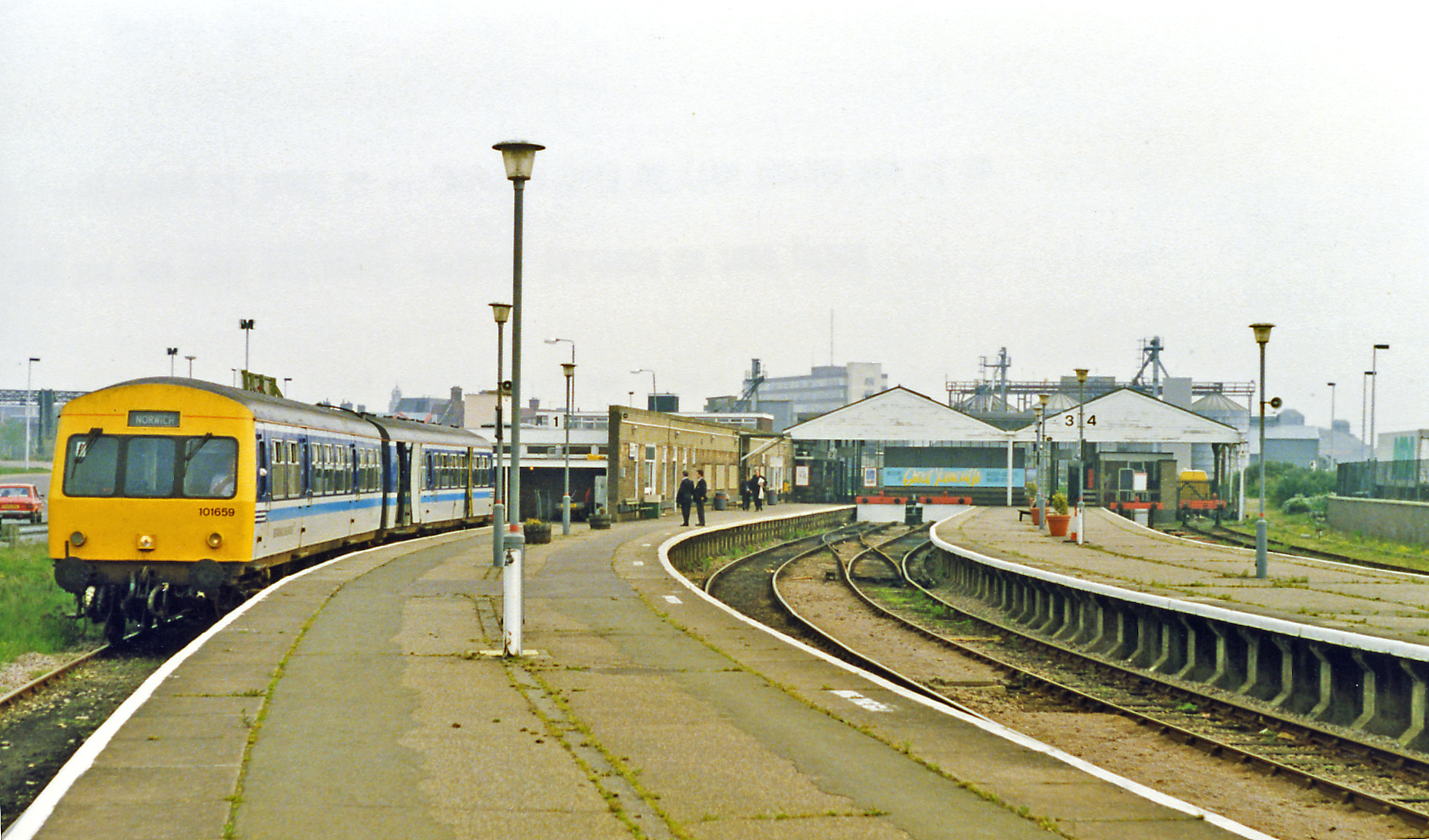 Great Yarmouth (formerly 'Vauxhall') station, 1993. View SE, to buffer-stops; ex-GER terminus of lines from Norwich etc. By 1993 a dreary scene, with just a Class 101 DMU on a local service from Norwich.